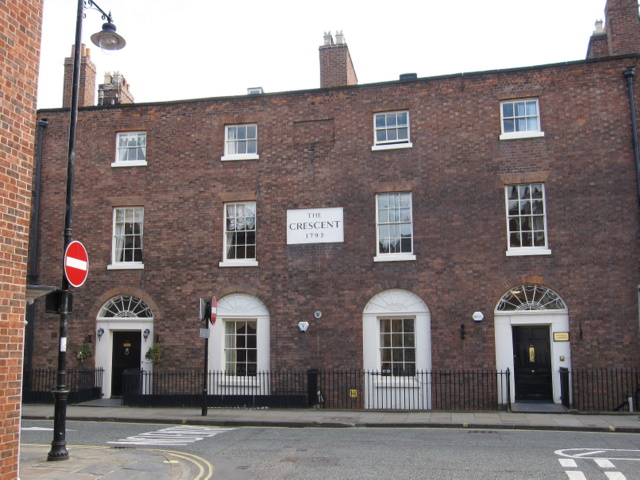 The Crescent alongside Town Walls Looking across Town Walls towards The Crescent, a fine looking Georgian building dating to 1793.